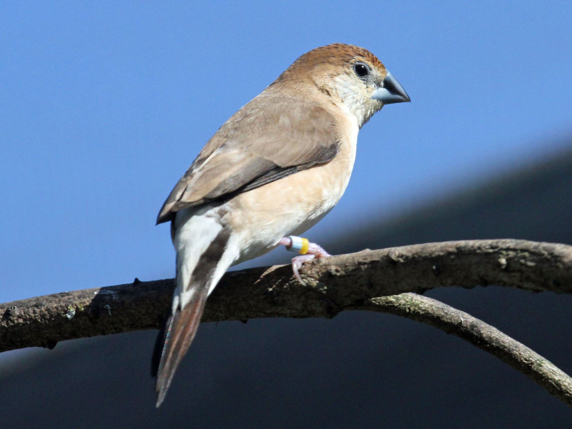 Indian Silverbill also White-rumped Silverbill (Euodice malabarica also Lonchura malabarica) Butterfly World, Florida